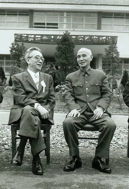 Hu Shih and Chiang Kai-shek at Academia Sinica 1958-04-10